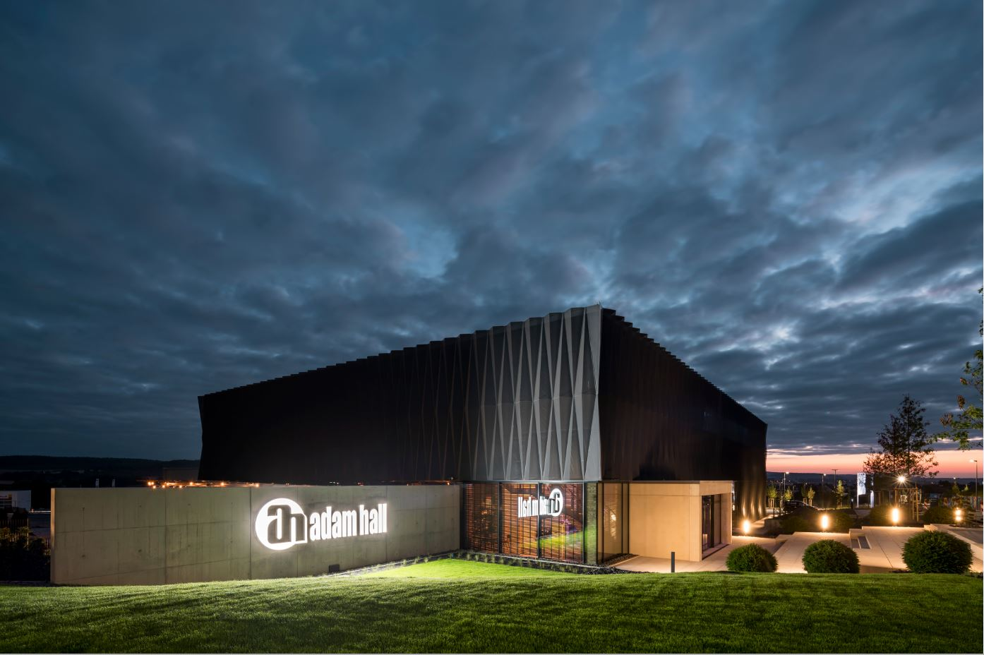 Adam Hall Experience Center 2018